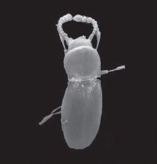 ZooKeys - Cephennium gilberti Cut-out from original (Cephennium spp.jpg) shown below